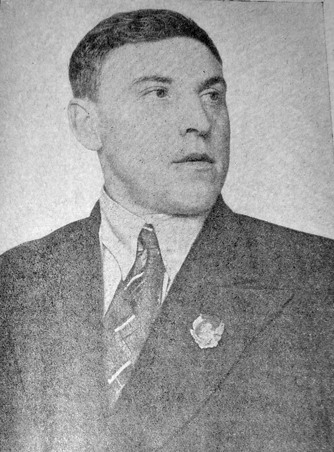 Alexey Stakhanov in 1936